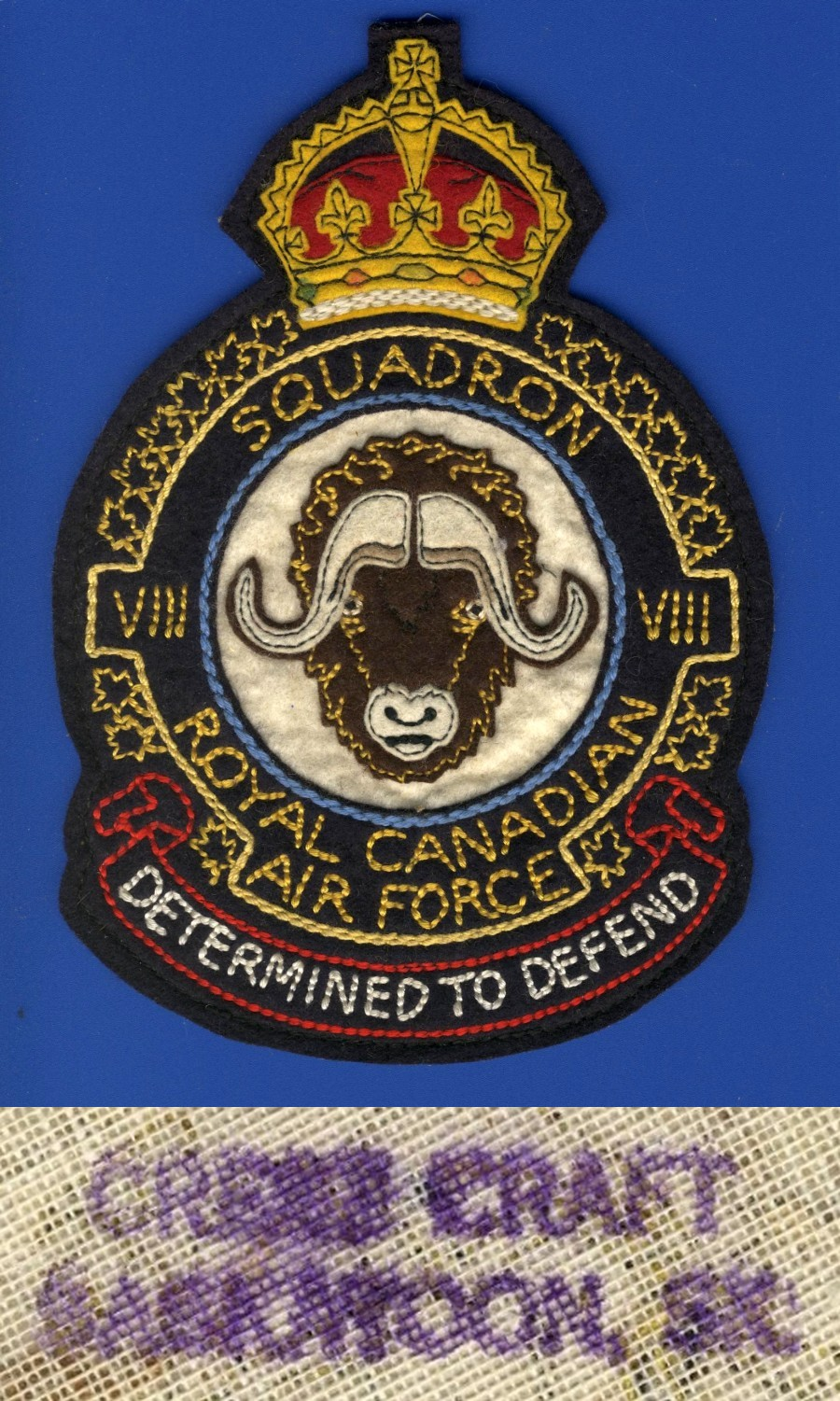 A RCAF WWII heraldic jacket patch for VIII (8) Squadron - disbanded in May 1945. Manufactured by Crest Craft of Saskatoon and the back-stamp indicates a manufacture date between 1942 and 1955.